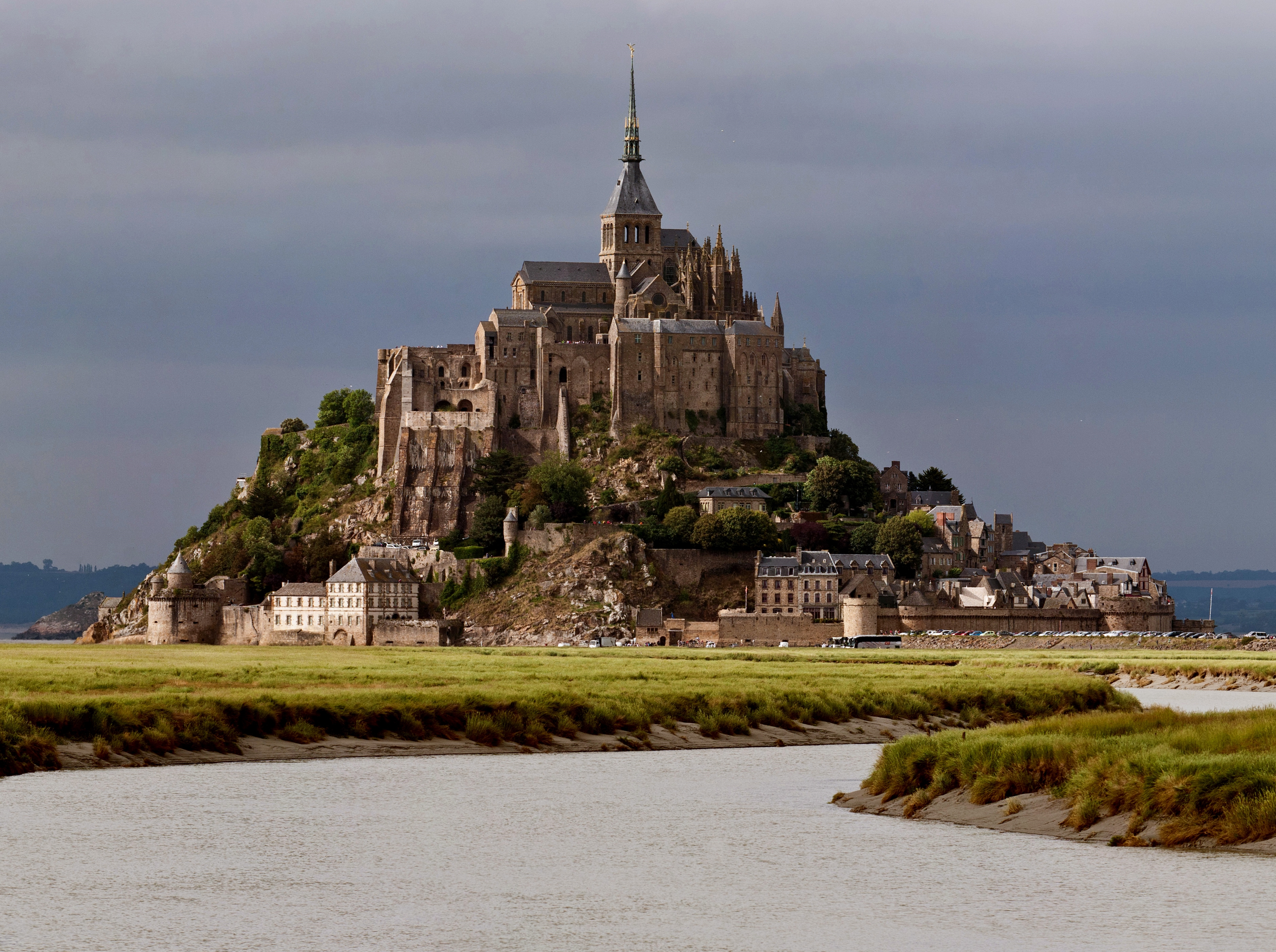 Mont St Michel as viewed along the Couesnon River in Britany, France